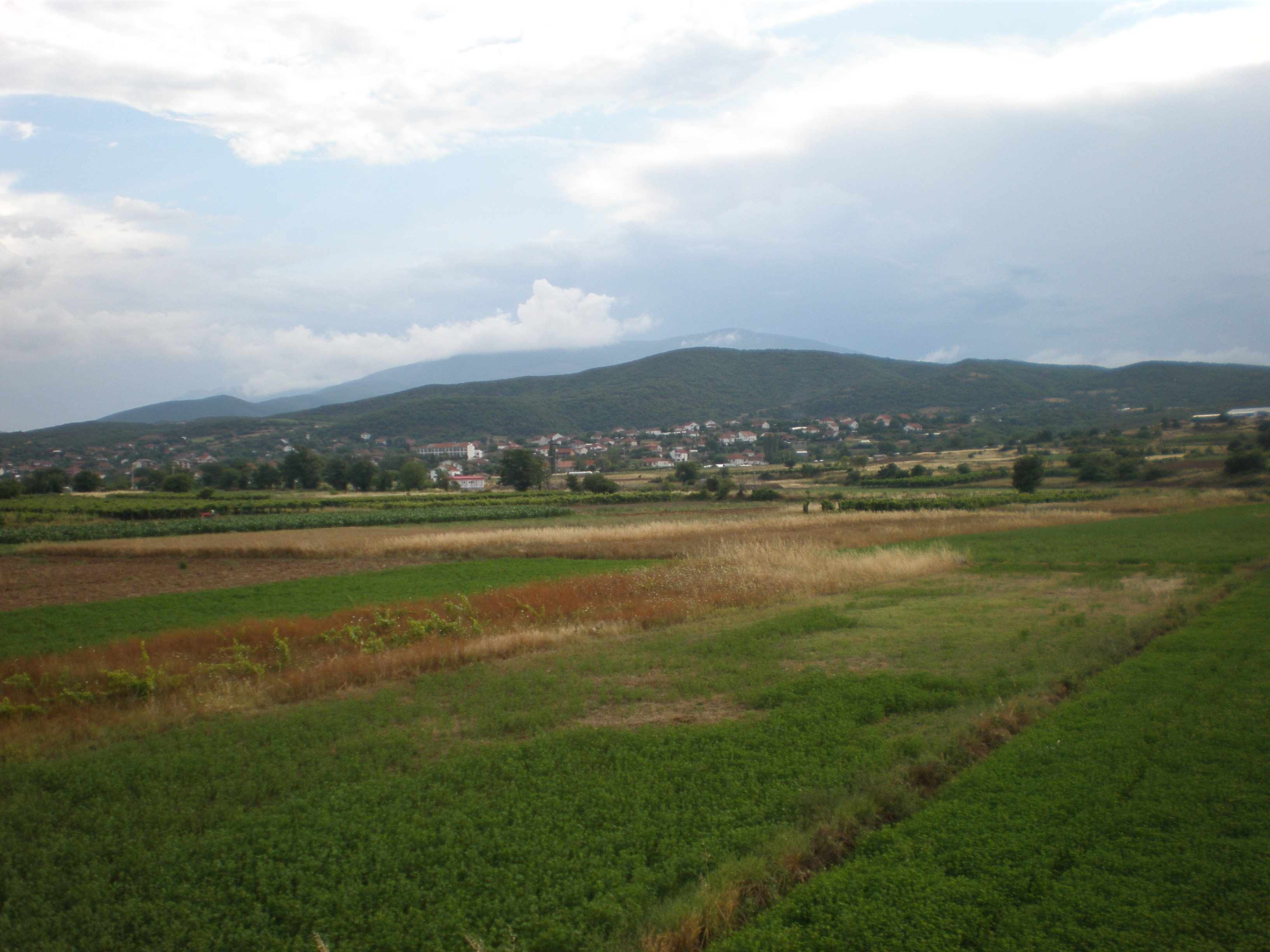 View of village of Miravci from railway track Skopje - Solun